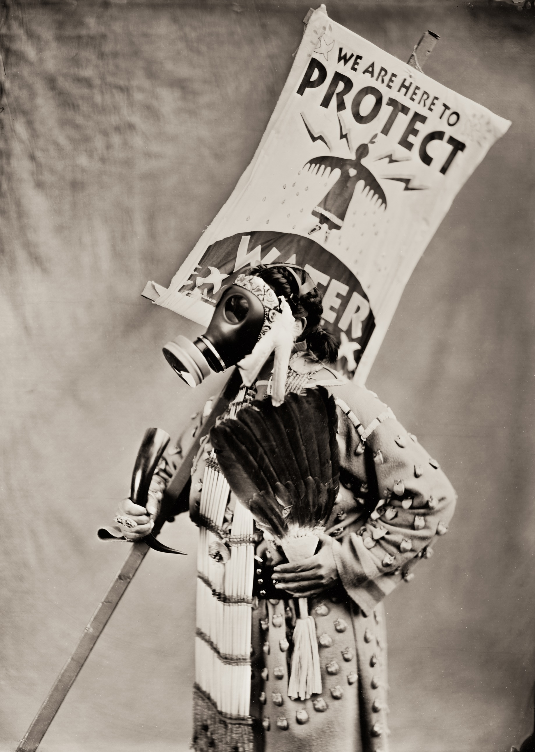 No Spiritual Surrender" with Floris White Bull, Hunkpapa Lakota - Cochiti Pueblo, in the historic wet plate collodion process of silver on glass. Floris is a advocate for her people and was instrumental in the Standing Rock protests against the Dakota Access Pipeline. If you are interested in her story, please watch "Awake: A Dream from Standing Rock", my wet plate work is also featured in the documentary. 8x10" black glass ambrotype, Carl Zeiss Tessar 300mm lens, f4.5, 11 seconds of exposure, natural light coming through Northern facing studio window at Nostalgic Glass Wet Plate Studio.